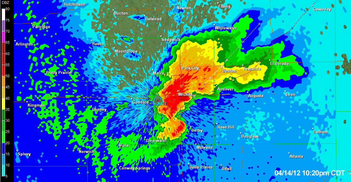 KICT radar image of the April 14th, 2012 Wichita Tornado at 22:20CDT